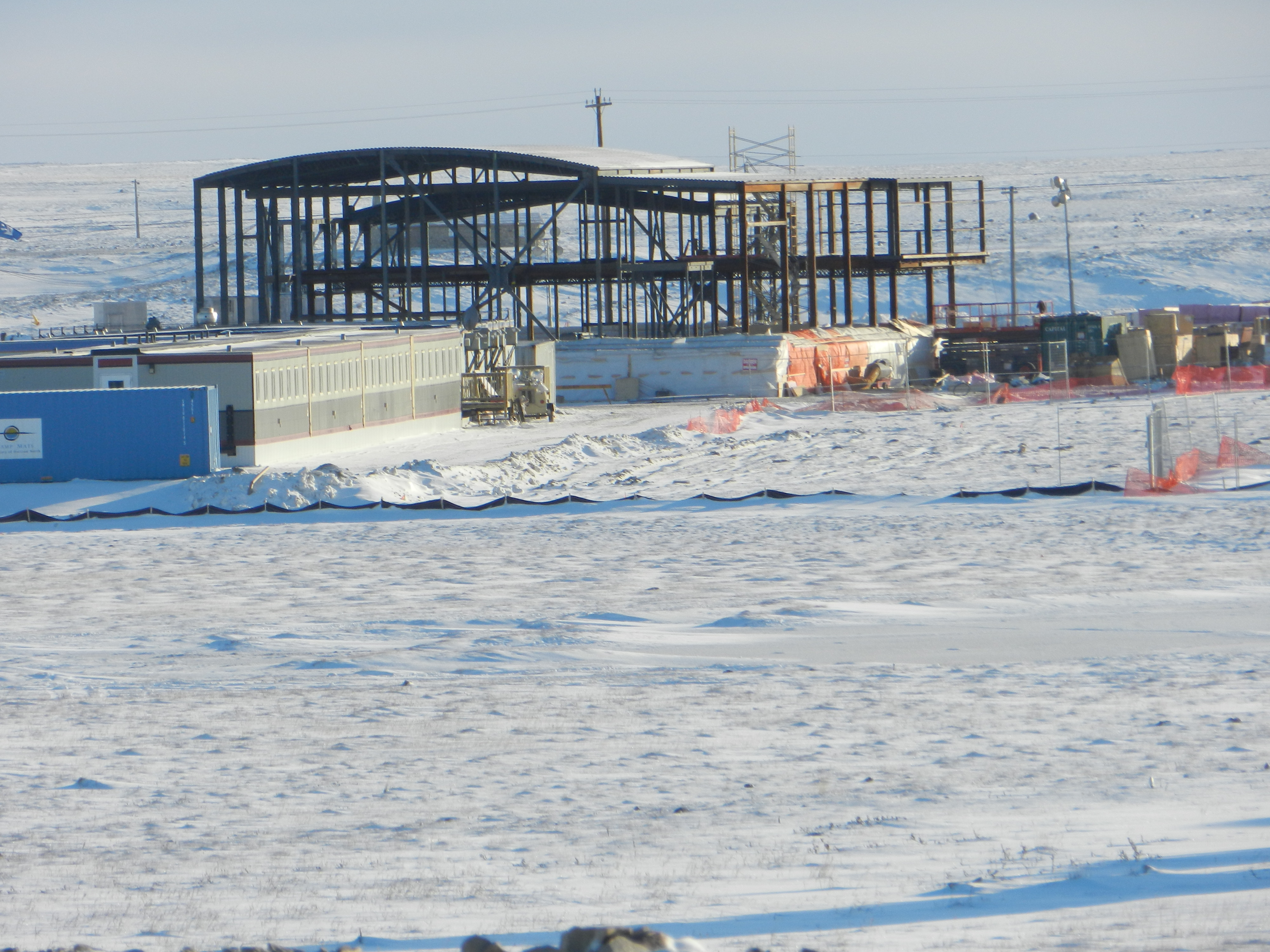 The Canadian High Arctic Research Station in Cambridge Bay under construction September 2014